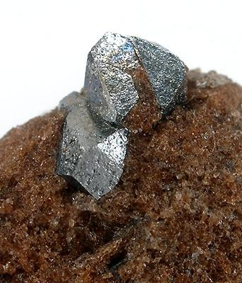 Löllingite Locality: Broken Hill, Yancowinna County, New South Wales, Australia (Locality at ) Size: 2.4 x 2.2 x 2.0 cm. Sharp, lustrous lollingite (or arsenopyrite?) crystals to 4 mm on matrix. Ex. Rice Northwest Museum Collection.